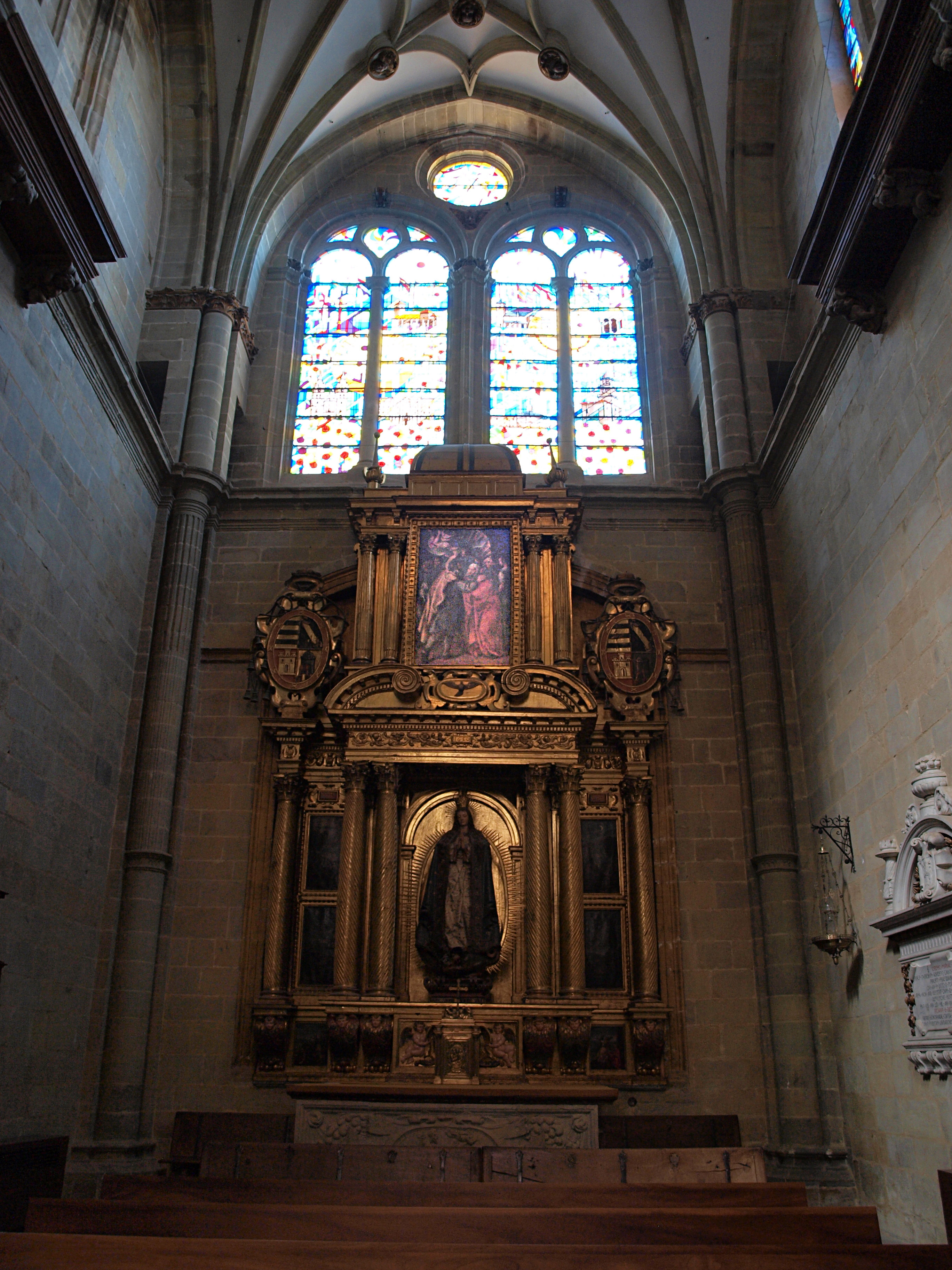 Astorga Cathedral, Astorga (Province of León, Spain).